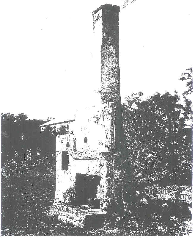 Remains of Honoria Clarke's late 18th Century home on St. Francis and Charlotte Streets in St. Augustine.